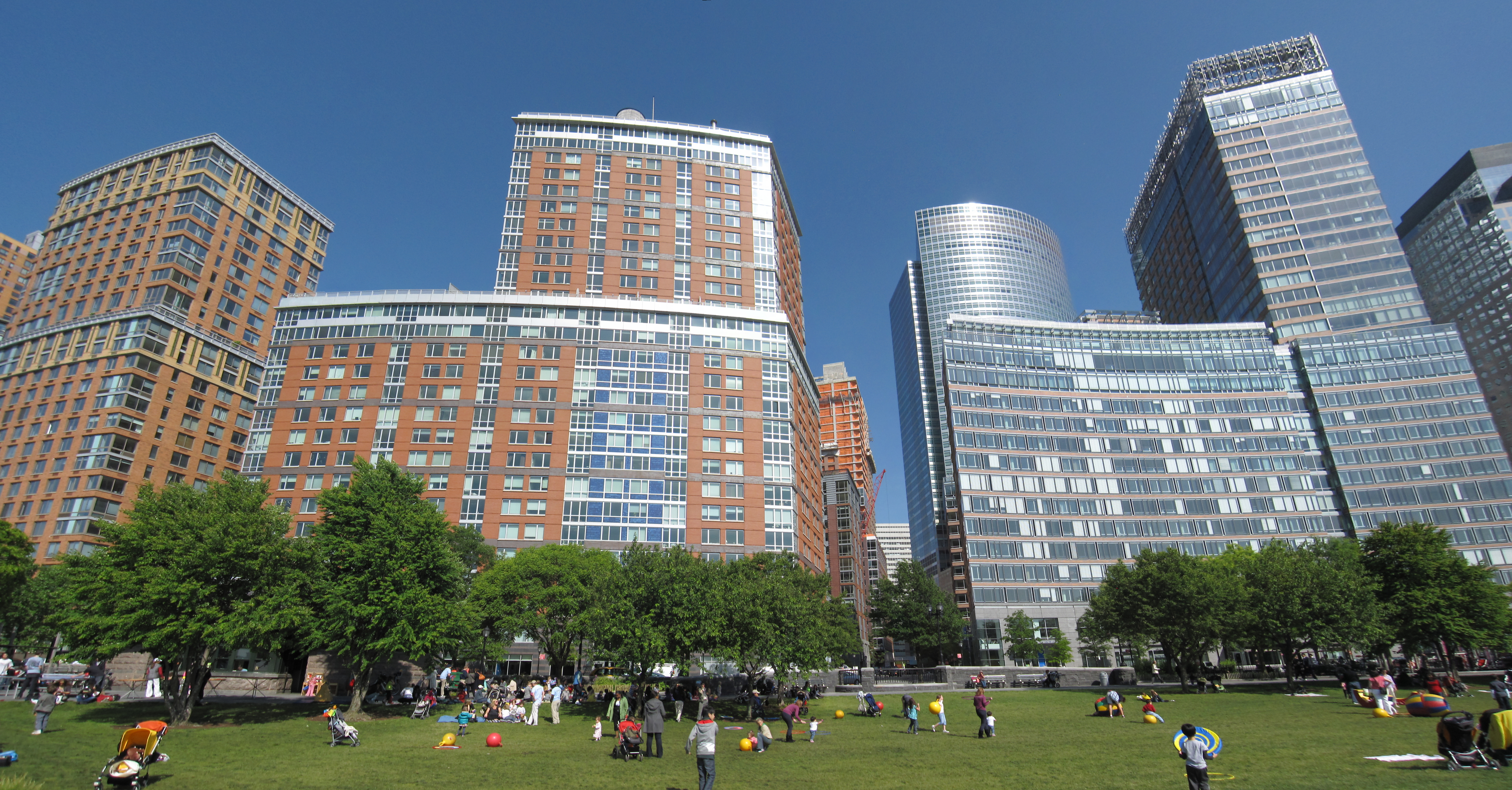 Northernmost part of Battery Park City